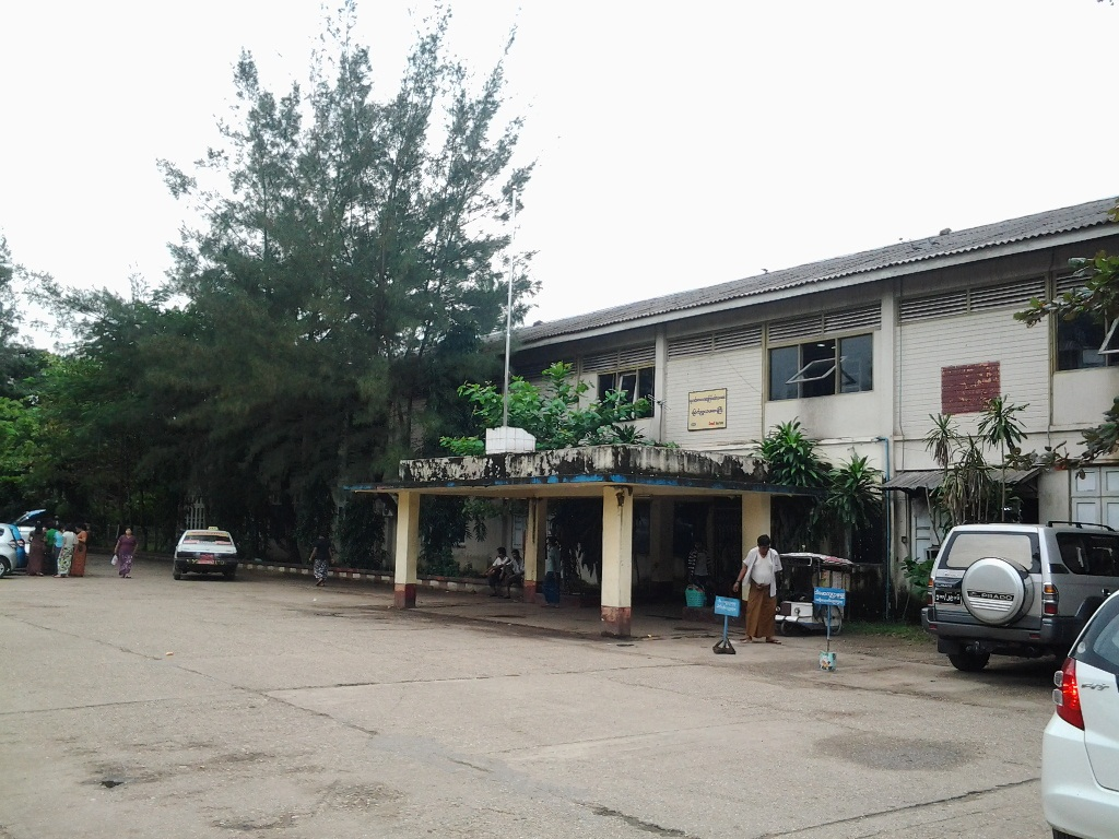 North Okkalapa General Hospital, Yangon, Burma